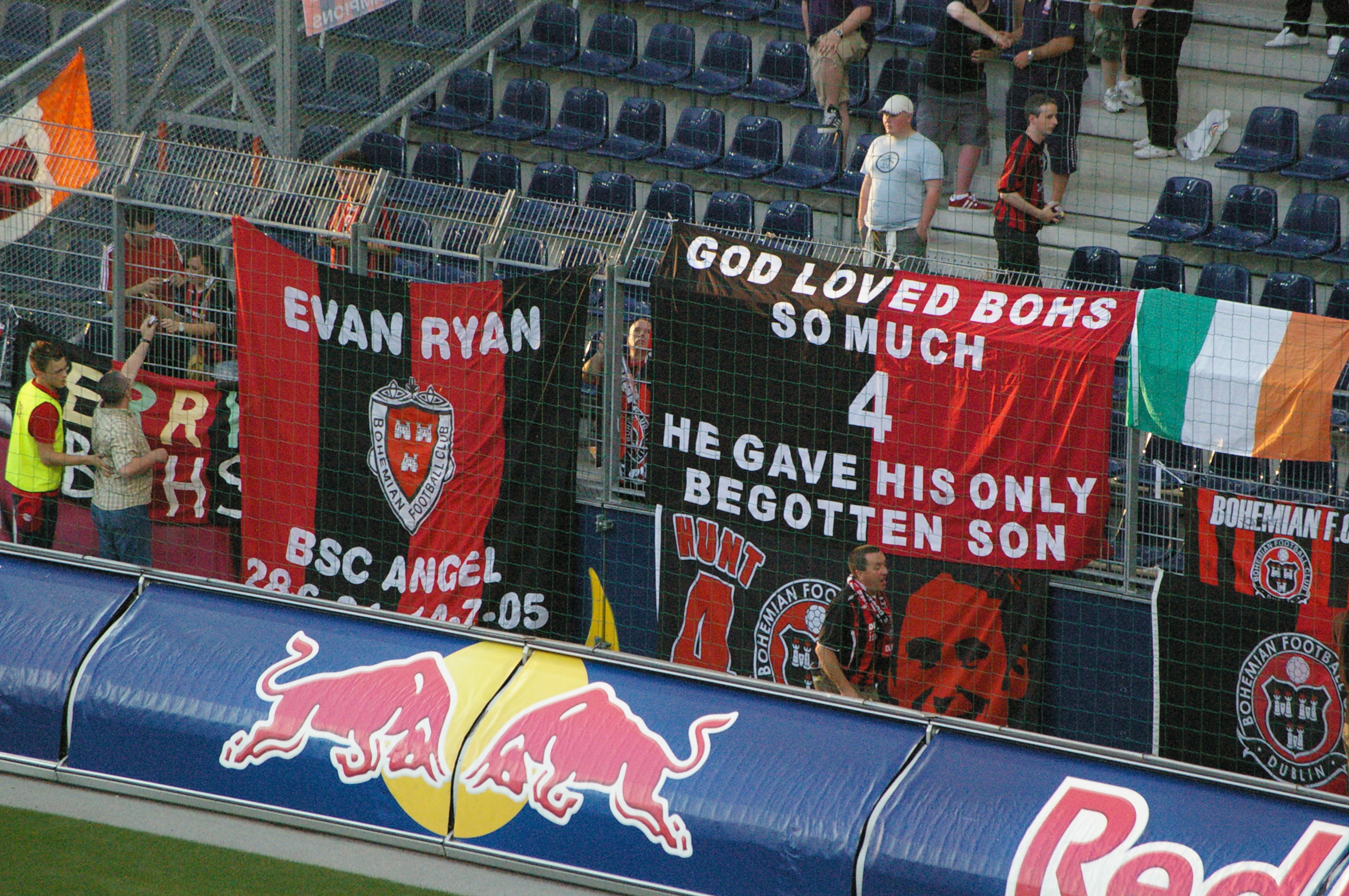 Bohemian Dublin supporters in Salzburg